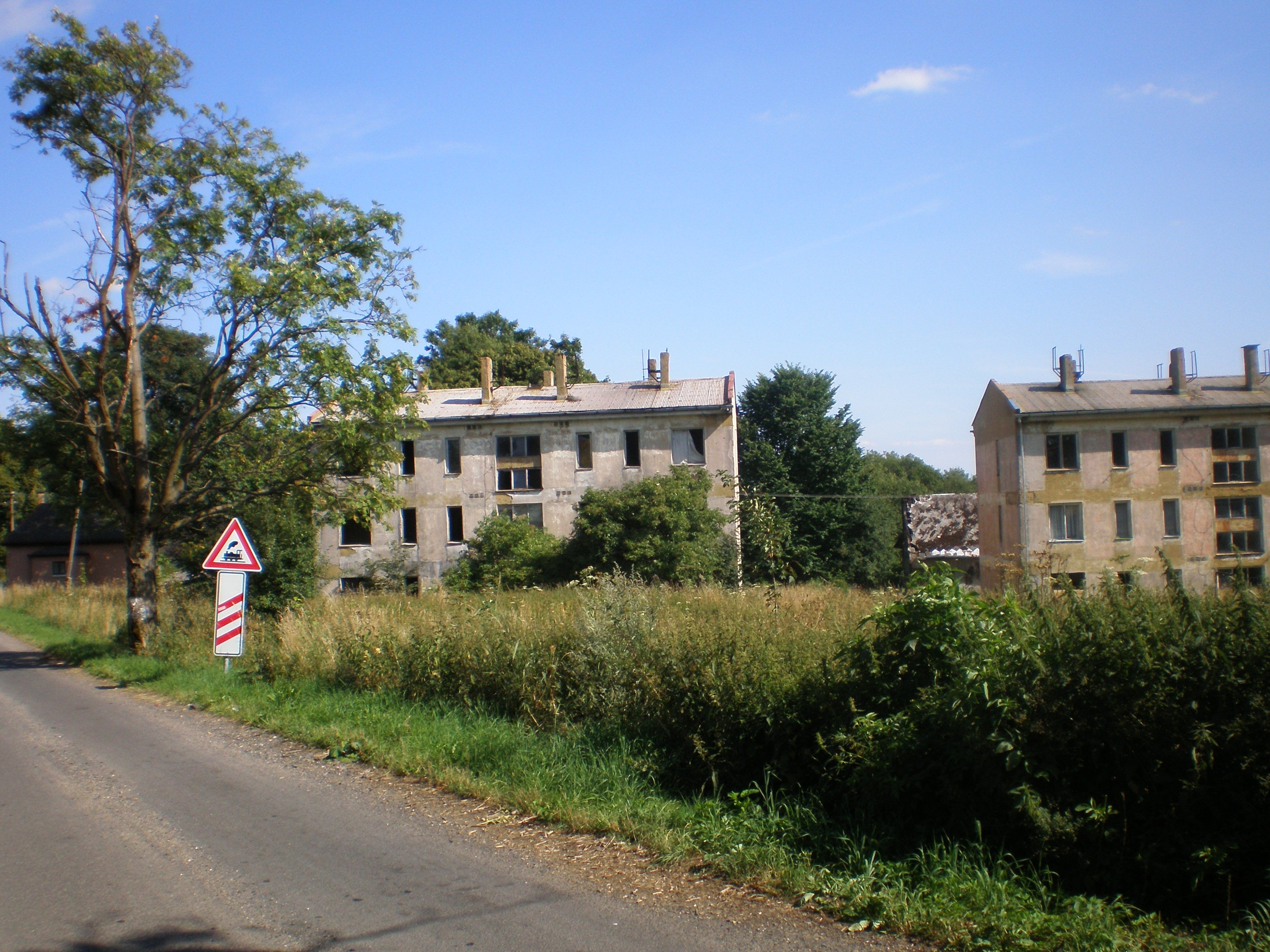 Štítary, Abandoned village in Cheb District, Czech Republic